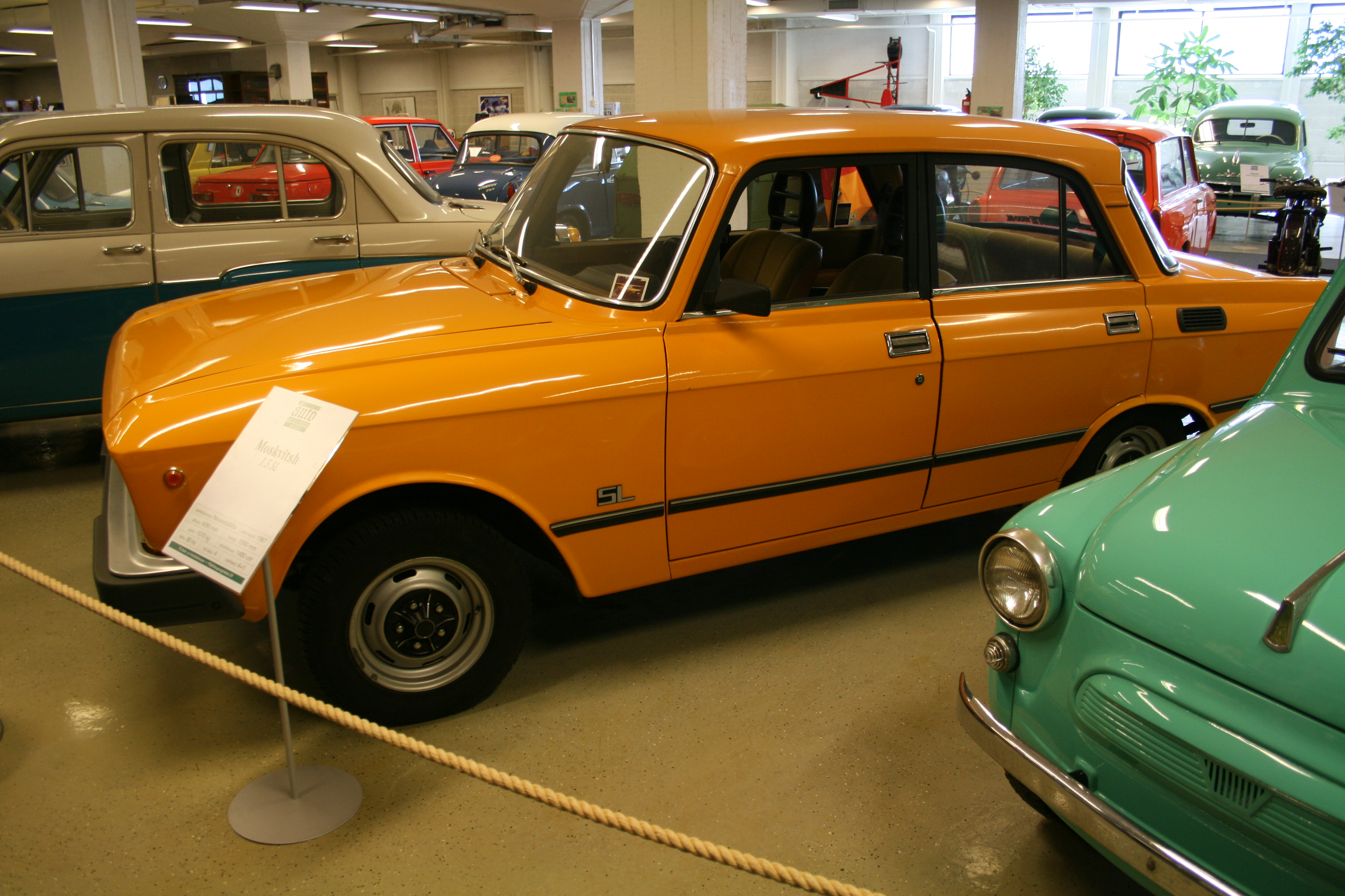 Moskvich 1.5 SL at the Car and Communication Museum in Finland.